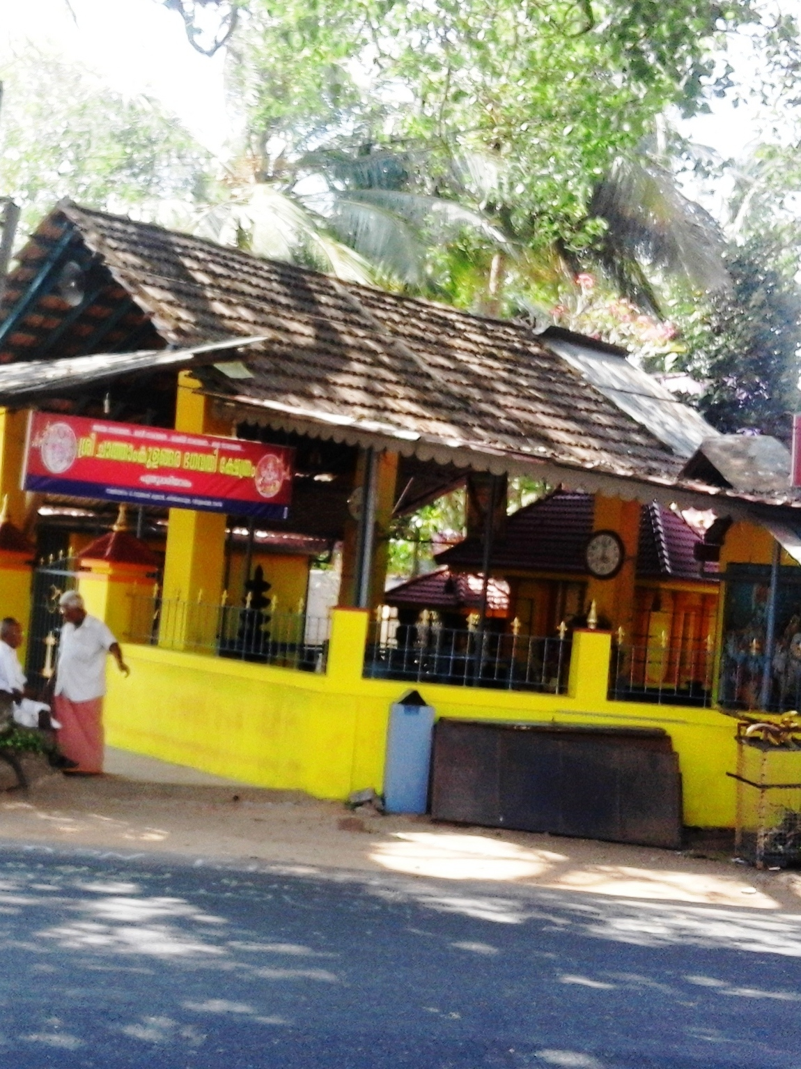 South Malabar Region, Kerala State, India.